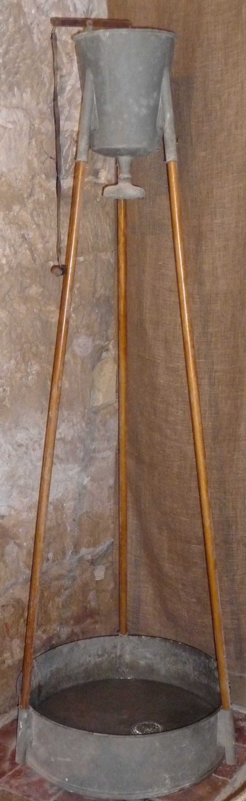 Old shower